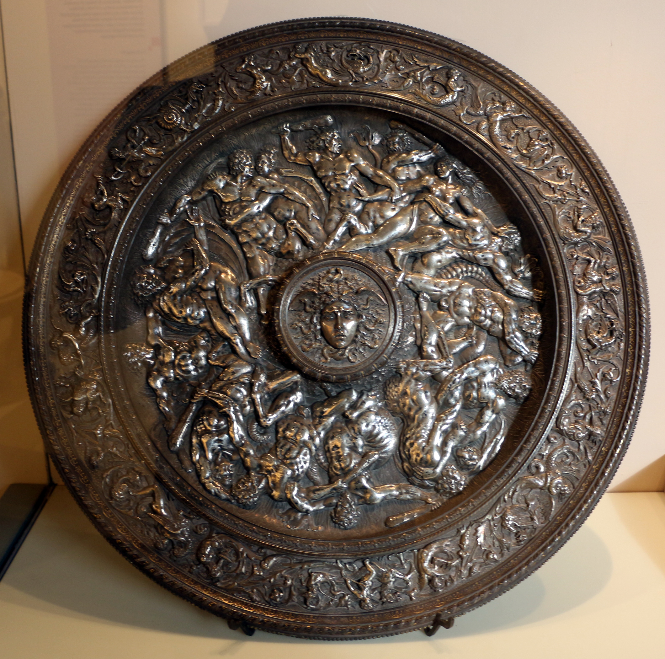 Furniture Museum (Milan)